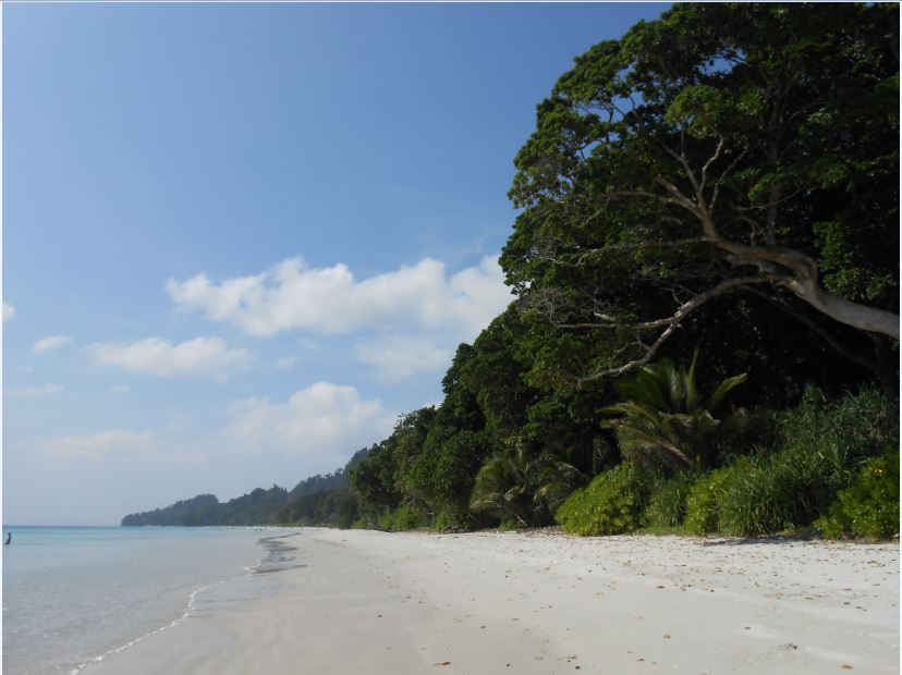 Radha Nagar Beach Andaman